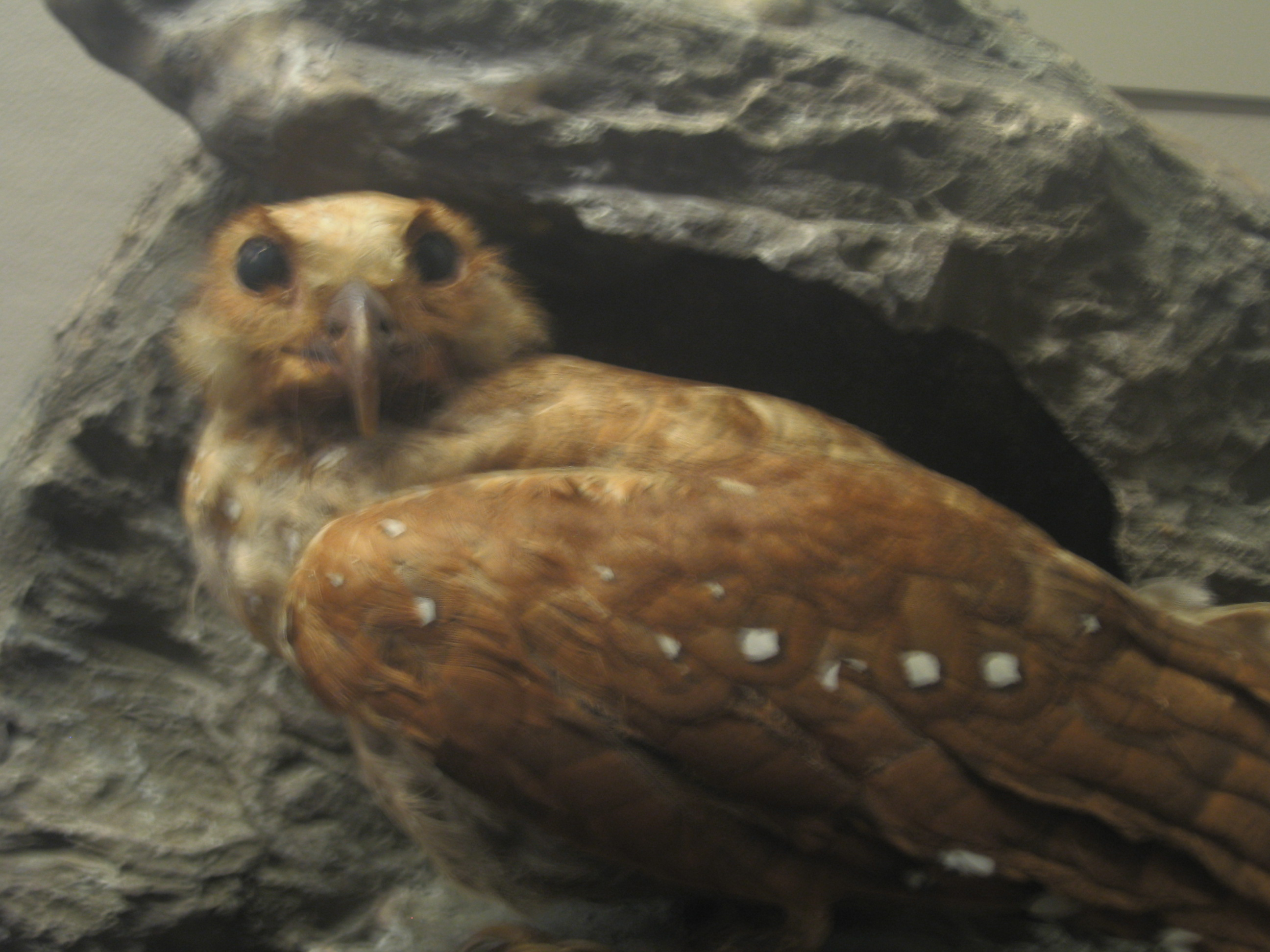 A preserved Oilbird (Steatornis caripensis) at the Field Museum.